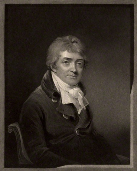 Portrait of John Scott-Waring (1747–1819), English politician.